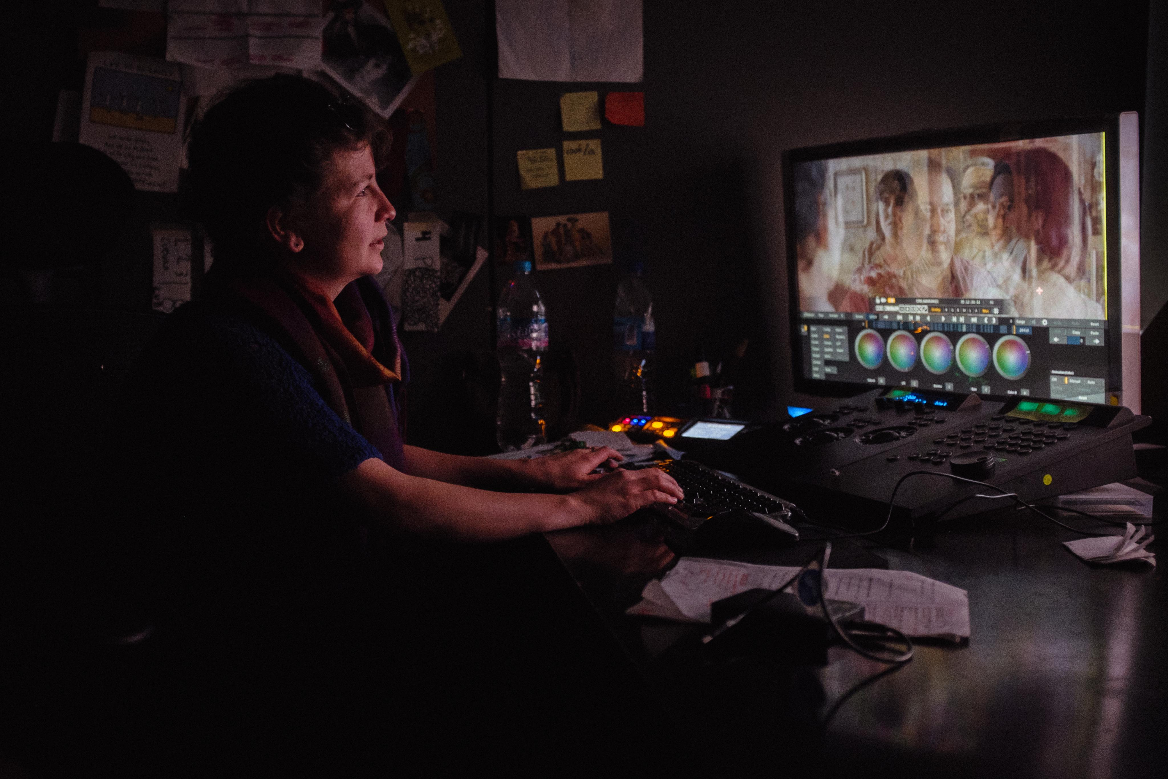 Colour grading with Scratch